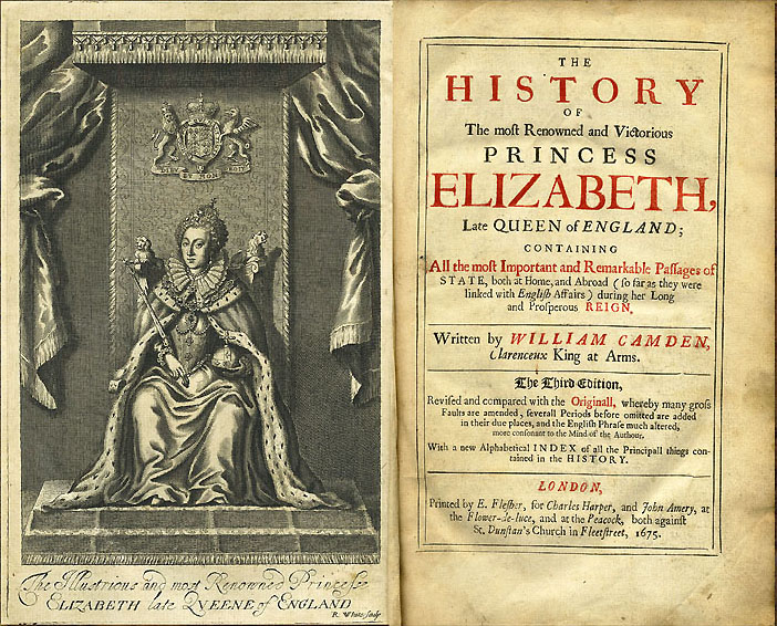 Frontispiece and titlepage from a 1675 edition of William Camden's biography of Queen Elzabeth I.